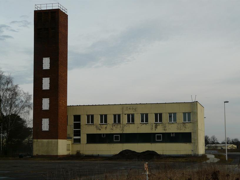 Cottbus Air Base: Fire Station